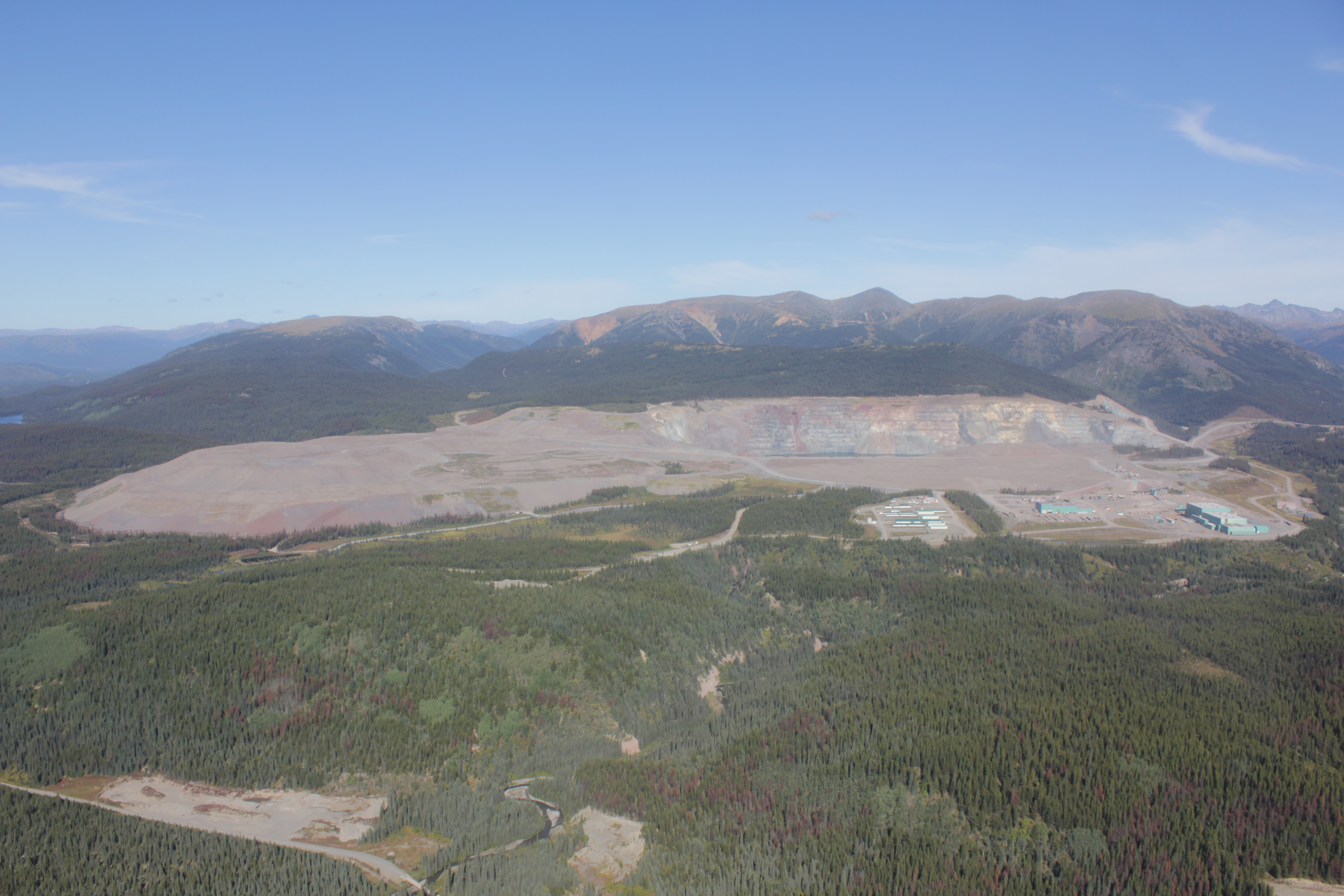 The Kemess Mine in northern British Columbia. Aerial photo taken in 2012 (after production ended) from south of the mine.